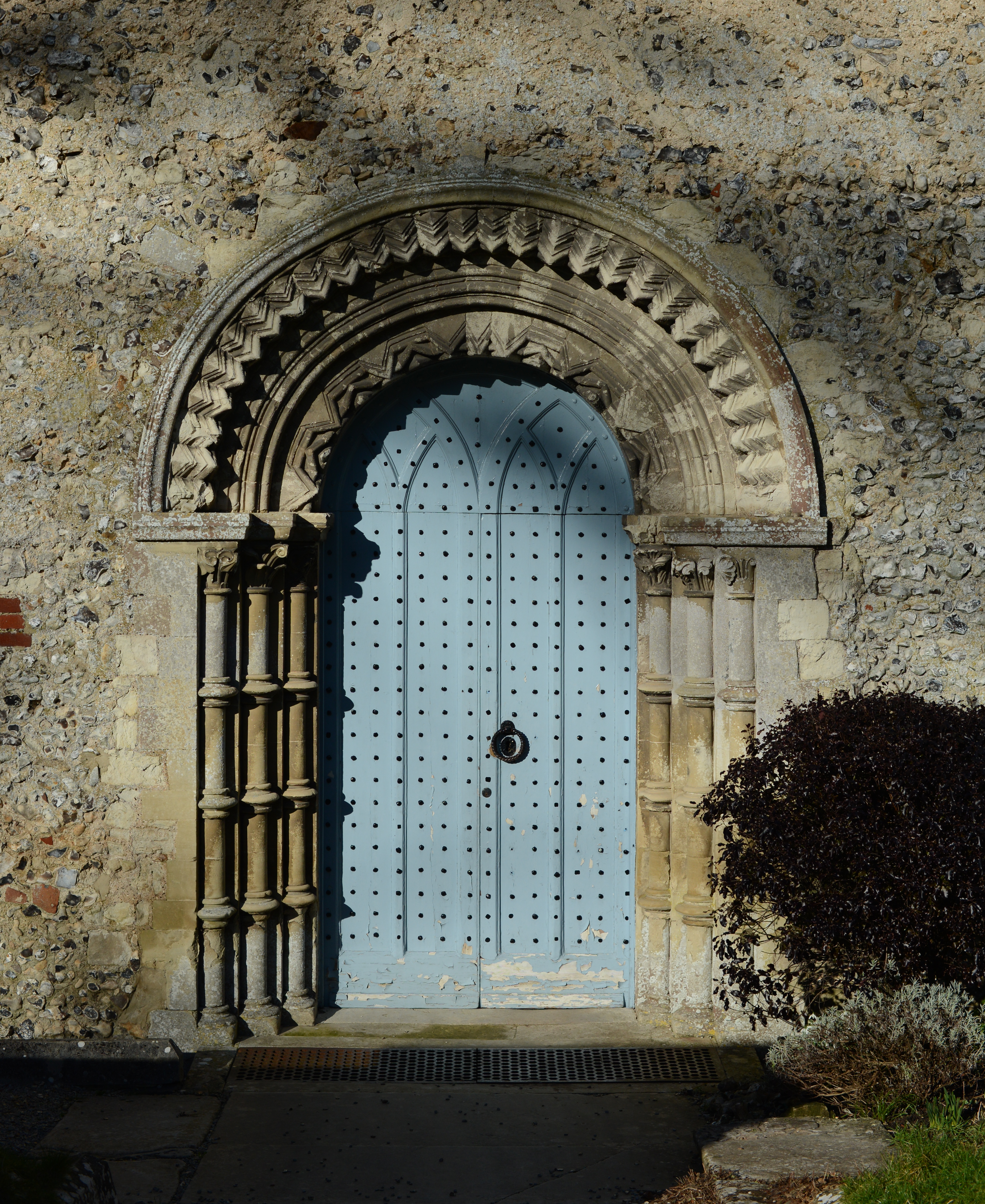 South doorway of St Mary's parish church, Easton, Hampshire